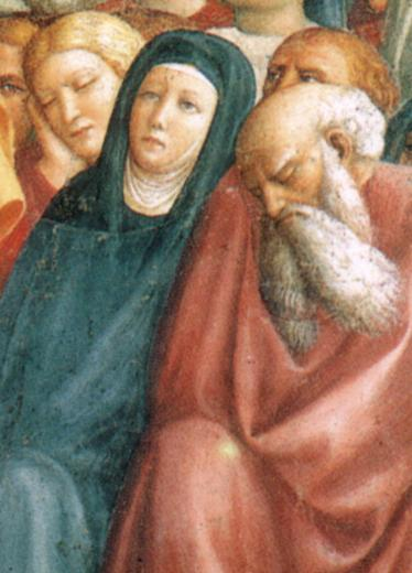 St. peter preaching 20.JPG